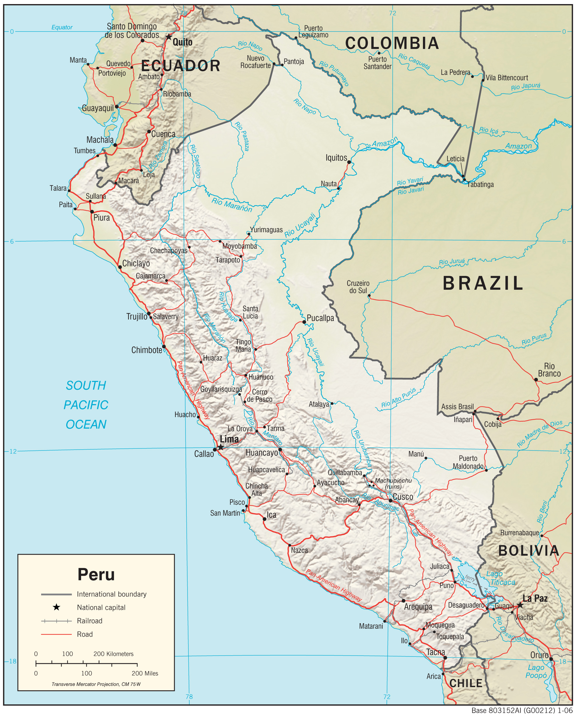 Topographic map of Peru (shaded relief), 2006.